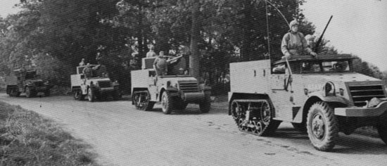 M2 Halftrack followed by M3-based GMCs.